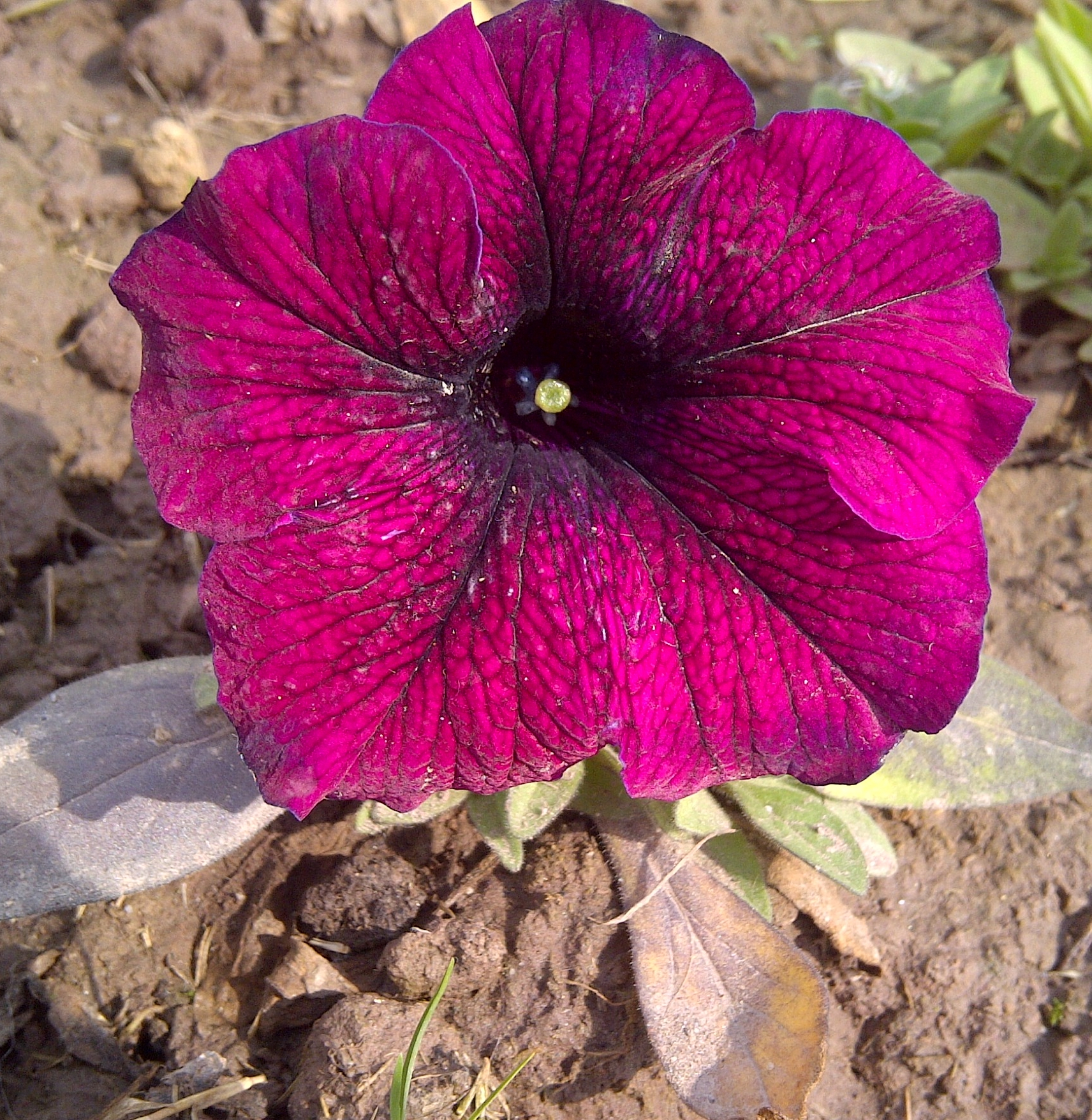 Petunia at Hyatabad Medical Complex Peshawar